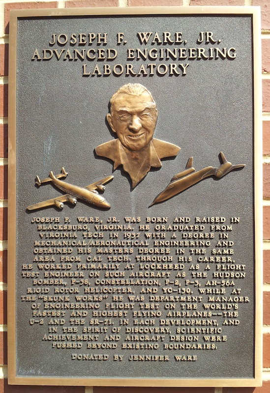 Joseph F. Ware, Jr., Advanced Engineering Laboratory plaque by the front door of the Ware Lab. Photo by Jennifer Ware.